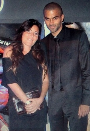 Julie Mimran and Tony Parker at Par Cœur Gala.